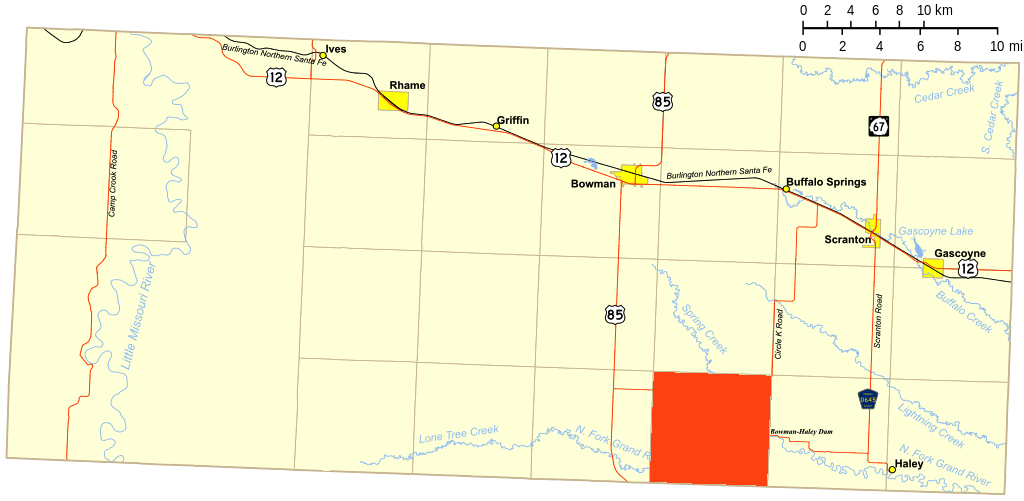 Map of Bowman County, ND, with Minnehaha Township highlighted